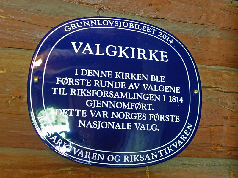 Kvikne church Tynset, election church